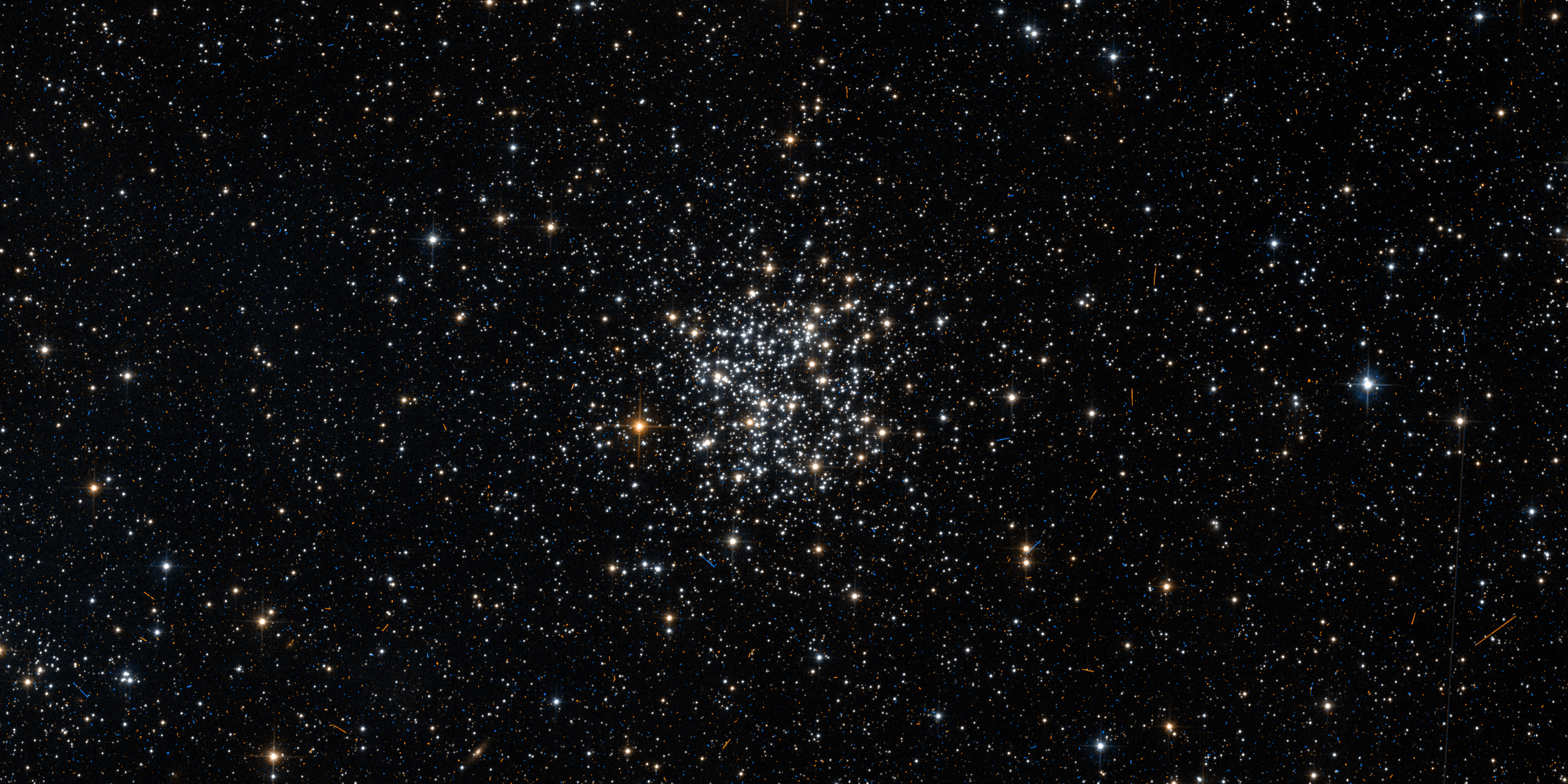 Color rendering is done by by Aladin-software (2000A&AS..143...33B.)